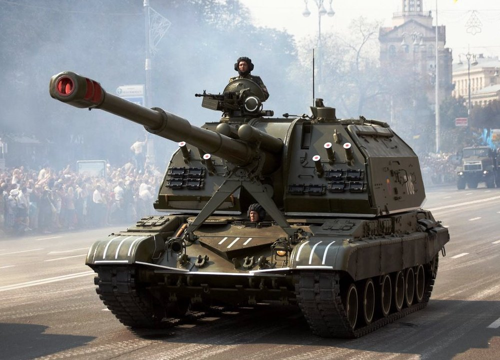 Ukrainian 2S19 Msta-S self-propelled howitzer during the Independence Day parade in Kiev, Ukraine in 2008.